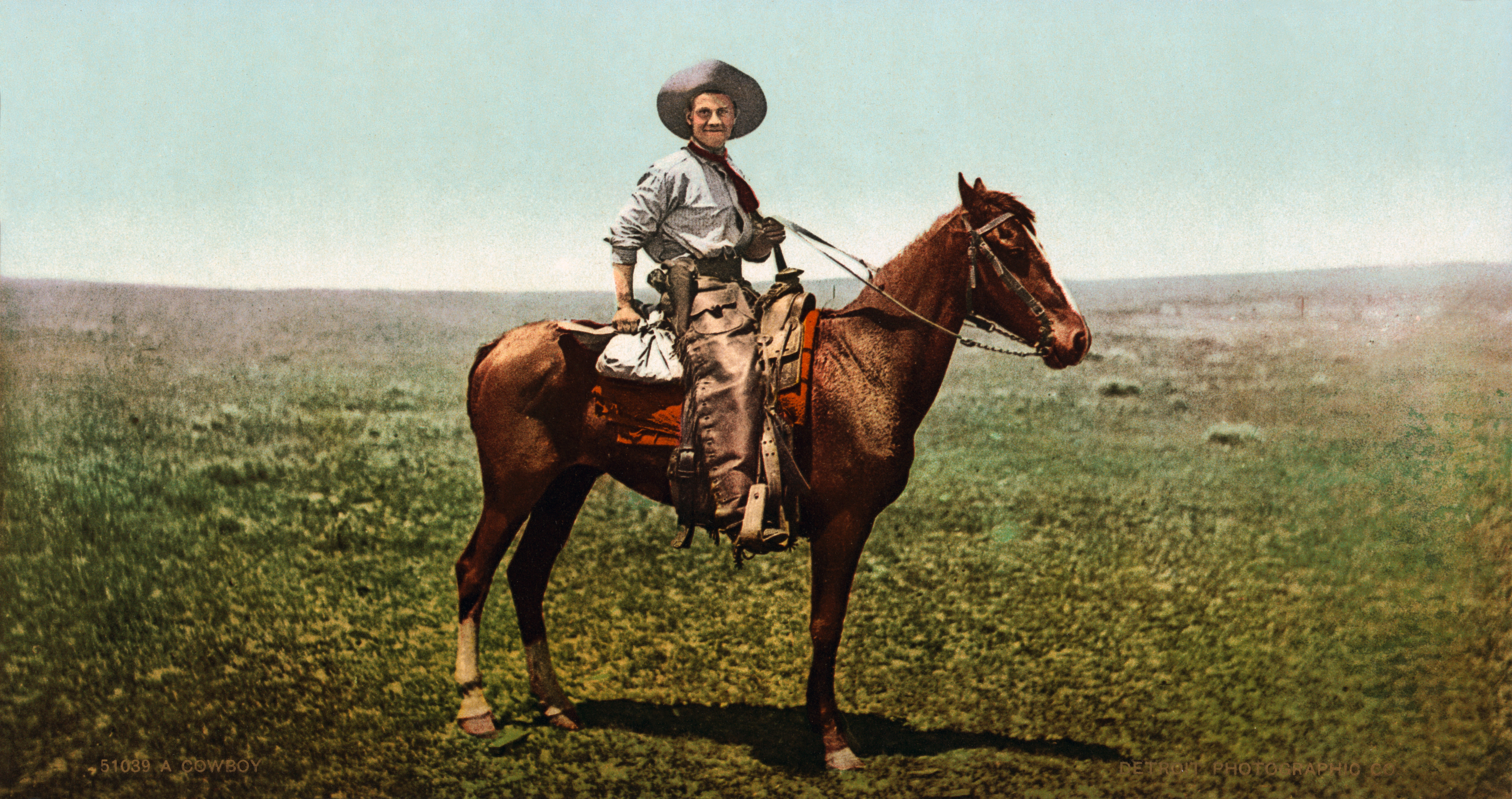 A Cowboy On Horseback. 1 Photomechanical Print : Photochrom, Color.